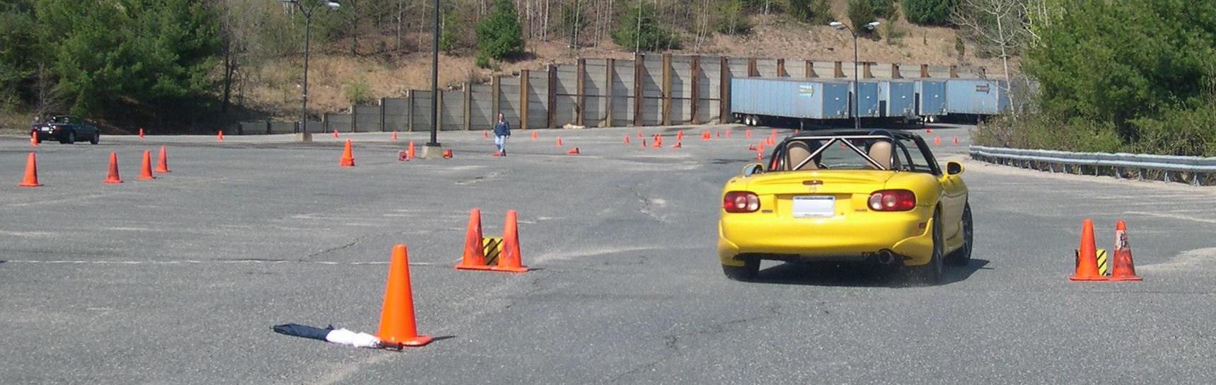 Autocross course with Mazda Miata I took this photo.